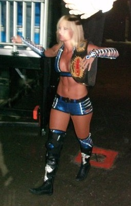 Michelle McCool at a house show.